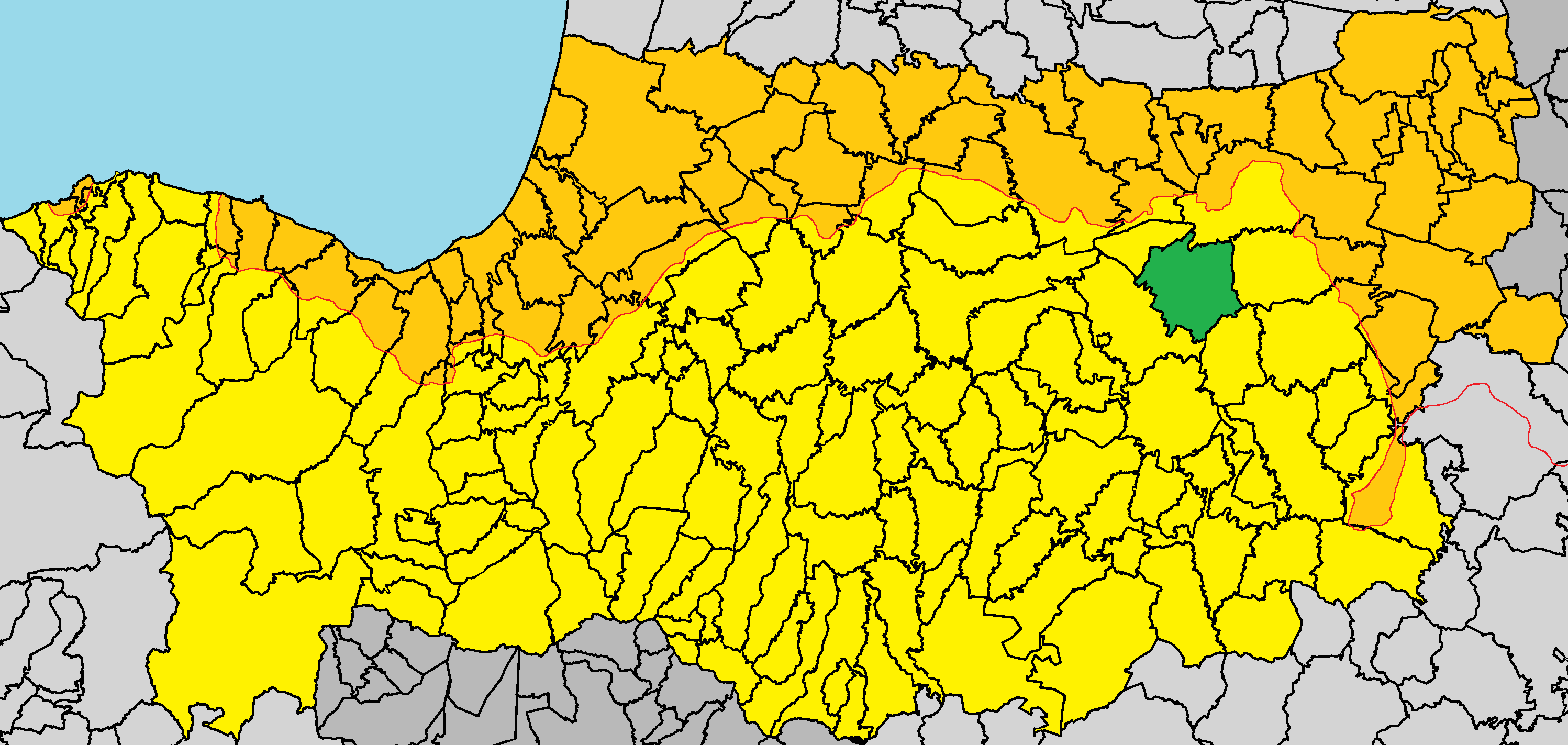 Strovolos in Nicosia District.